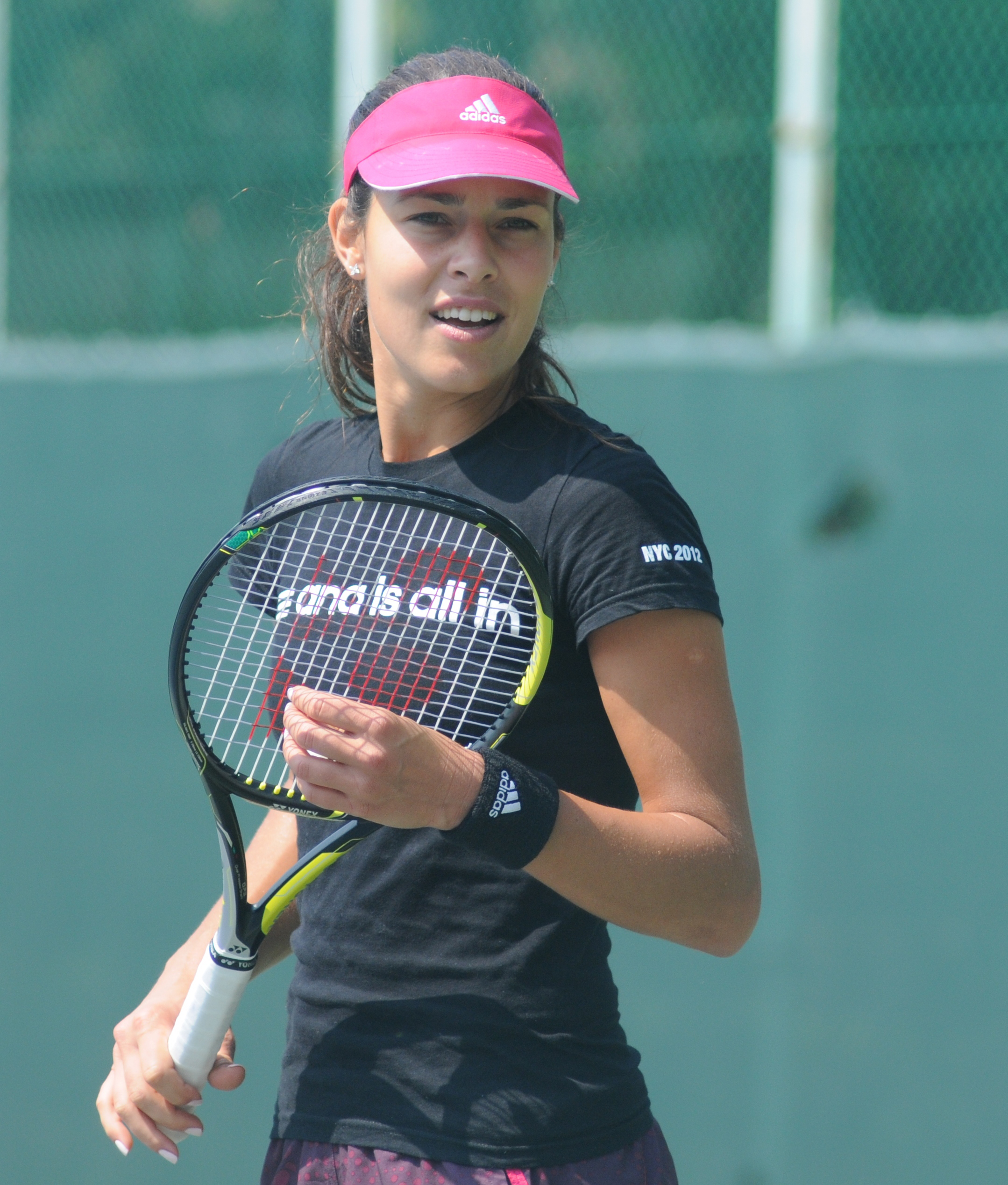 Ana Ivanović at the 2014 Toray Pan Pacific Open